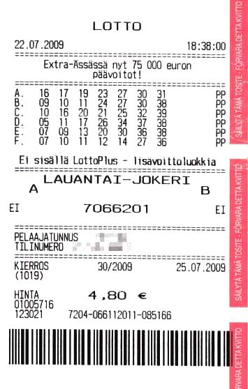 A Finnish Lotto coupon, with personal info (customer no. and account for winnings) blanked out. These coupons are printed out on a terminal connected to the lottery provider (Veikkaus) whenever a player participates in the lottery. The background logos have been removed due to concerns over copyright. Without logos, this has been determined to be PD at WP:PUI; :en:Wikipedia:Possibly unfree files/2009 September 17#File:LottoFIN.jpg